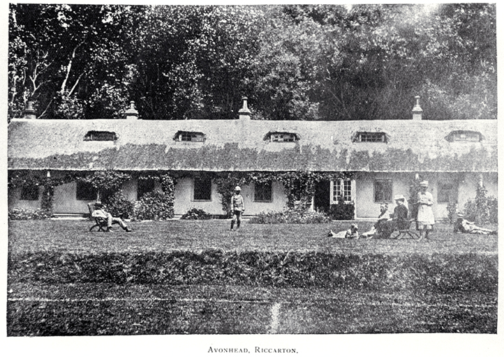 Avonhead was built by William Bray in 1853 on a site which later became Archdall Place. It was built of pug clay and had 12 rooms arranged in a long strip facing the sun. The walls were 18 in. thick and the roof was thatched. It was demolished in 1944. Bray was a civil engineer and is remembered for constantly prophesying that one day the Waimakariri River would break its banks and run through Christchurch.